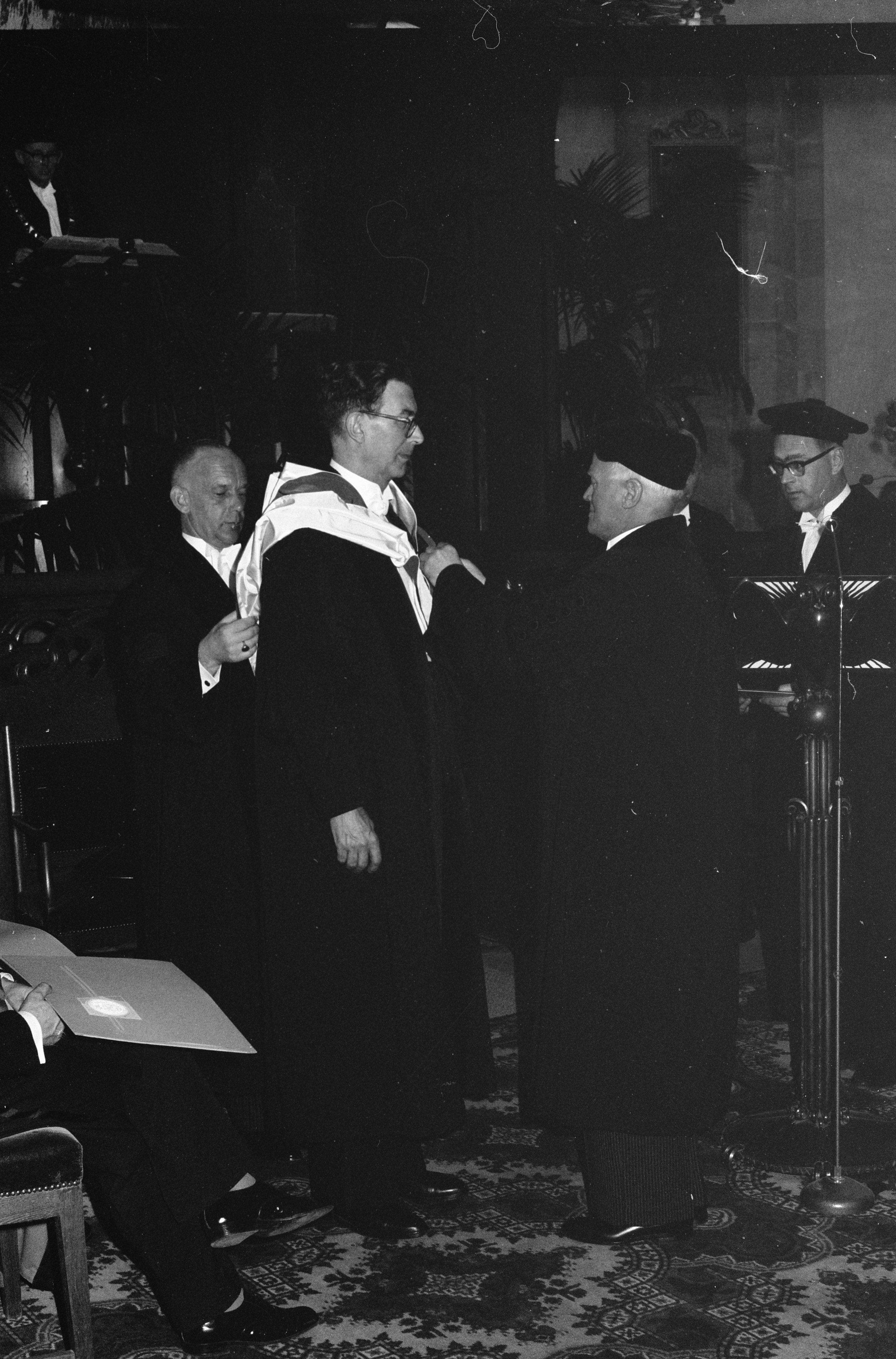 Honorary doctorate Utrecht University (the Netherlands), 12 April 1961. Probably J.H.C. Van Werveke receiving an honorary doctorate